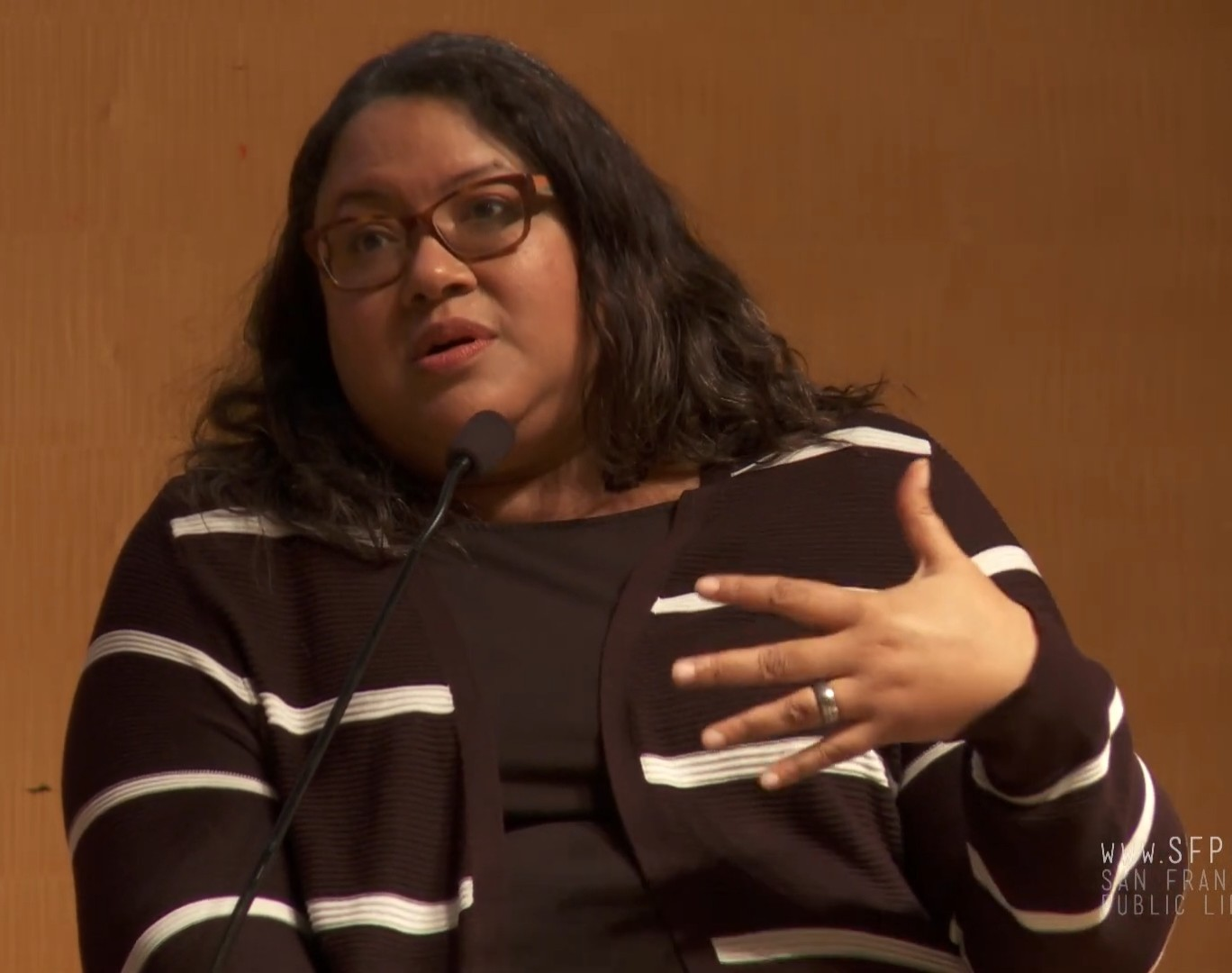 The Black & Brown Comix Arts Festival (BCAF) celebrates the creativity of people of color in the comic arts and popular visual culture and is dedicated to the notion that all audiences deserve to be subject in the culture in which we participate. A partnership with the San Francisco Public Library, BCAF is a festival of the Northern California Dr. Martin Luther King, Jr. Community Foundation and is part of the annual Dr. Martin Luther King, Jr. celebrations in San Francisco.